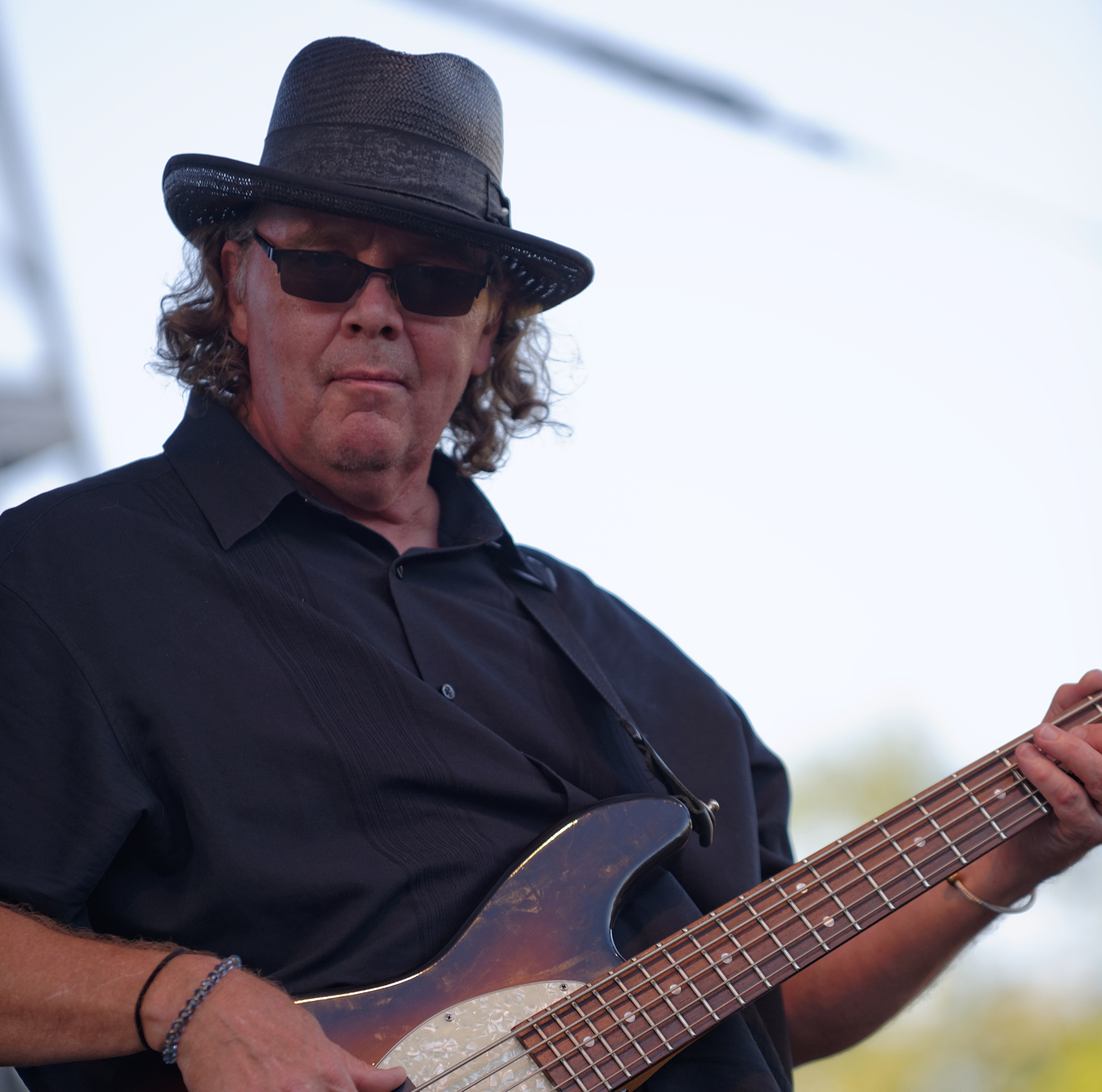 Steve Gustafson performing with 10,000 Maniacs at Pittsford Park in Lake Forest in 2015